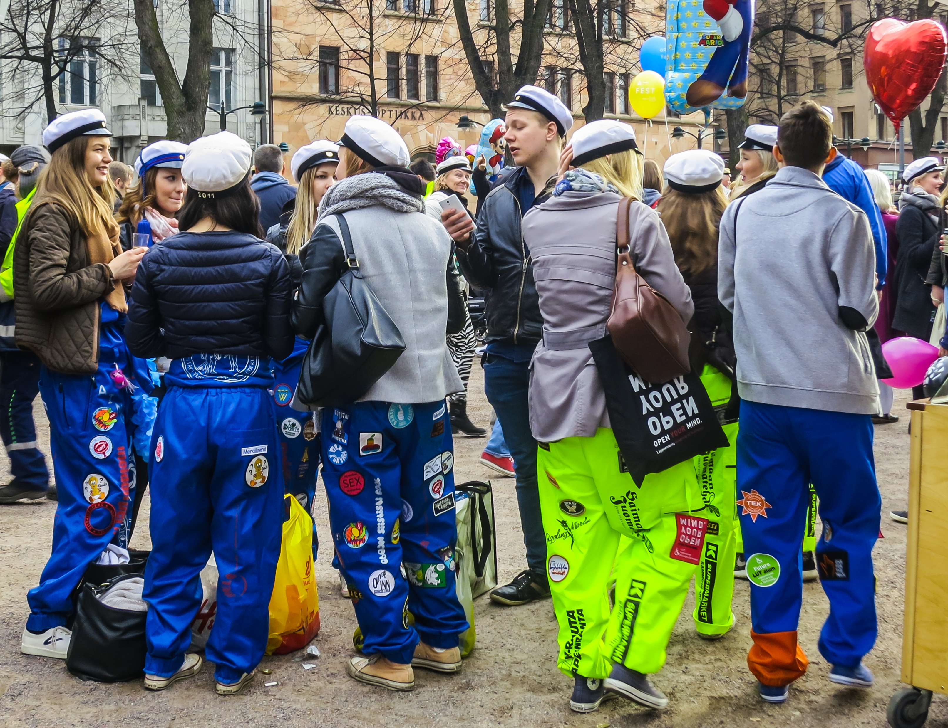 Student culture in Helsinki on the first of May